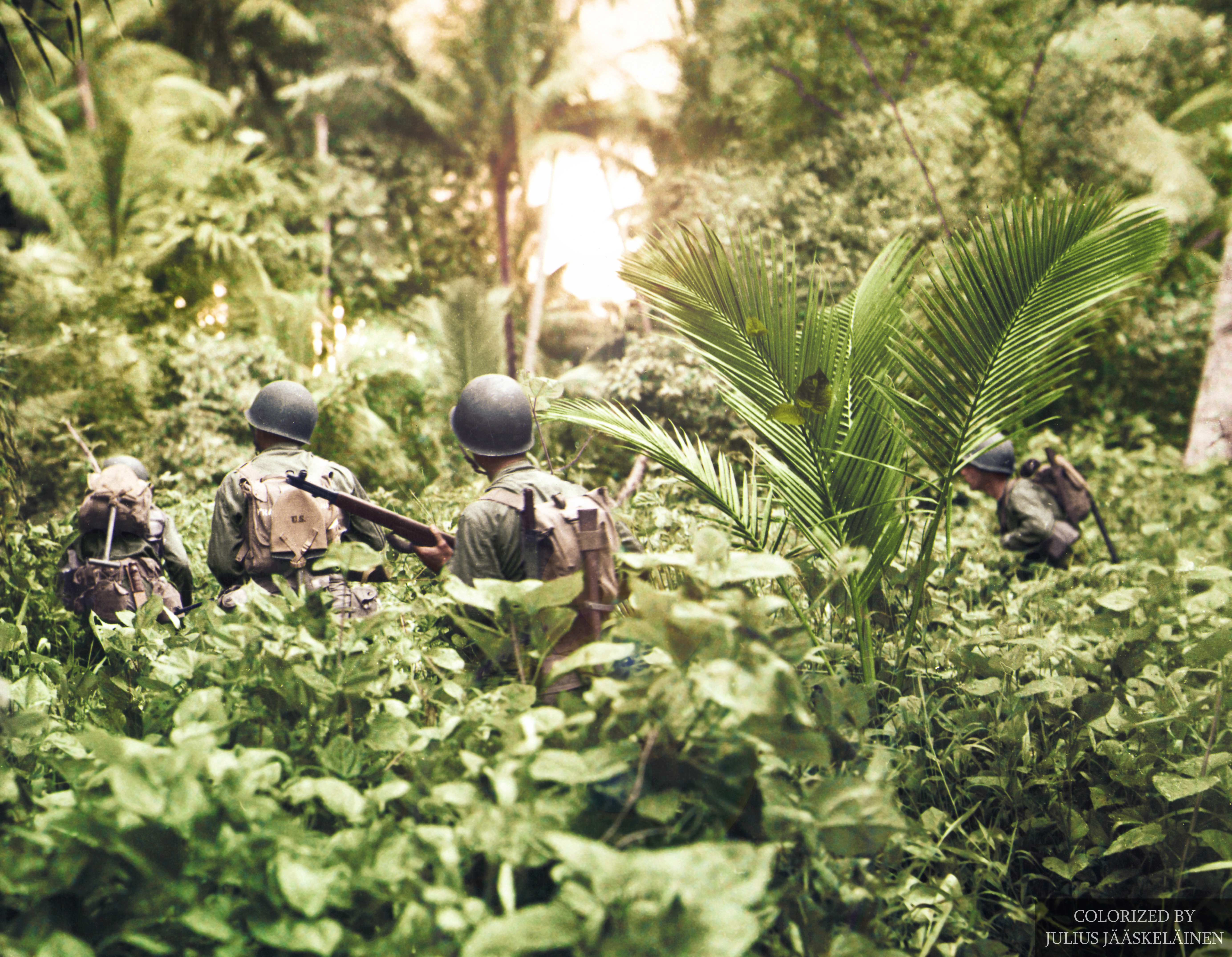 The Landing on Emirau was the last of the series of operations that made up Operation Cartwheel, General Douglas MacArthur's strategy for the encirclement of the major Japanese base at Rabaul. A force of nearly 4,000 United States Marines landed on the island of Emirau on 20 March 1944. The island was not occupied by the Japanese and there was no fighting. It was developed into an airbase which formed the final link in the chain of bases surrounding Rabaul. The isolation of Rabaul permitted MacArthur to turn his attention westward and commence his drive along the north coast of New Guinea toward the Philippines.